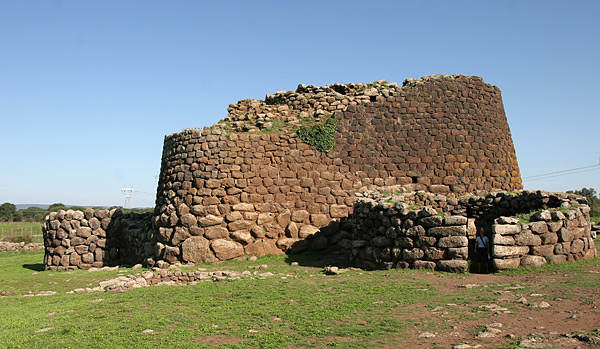 Northern view. Own work. 3.10.2006